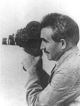 Ya'ackov Ben-Dov